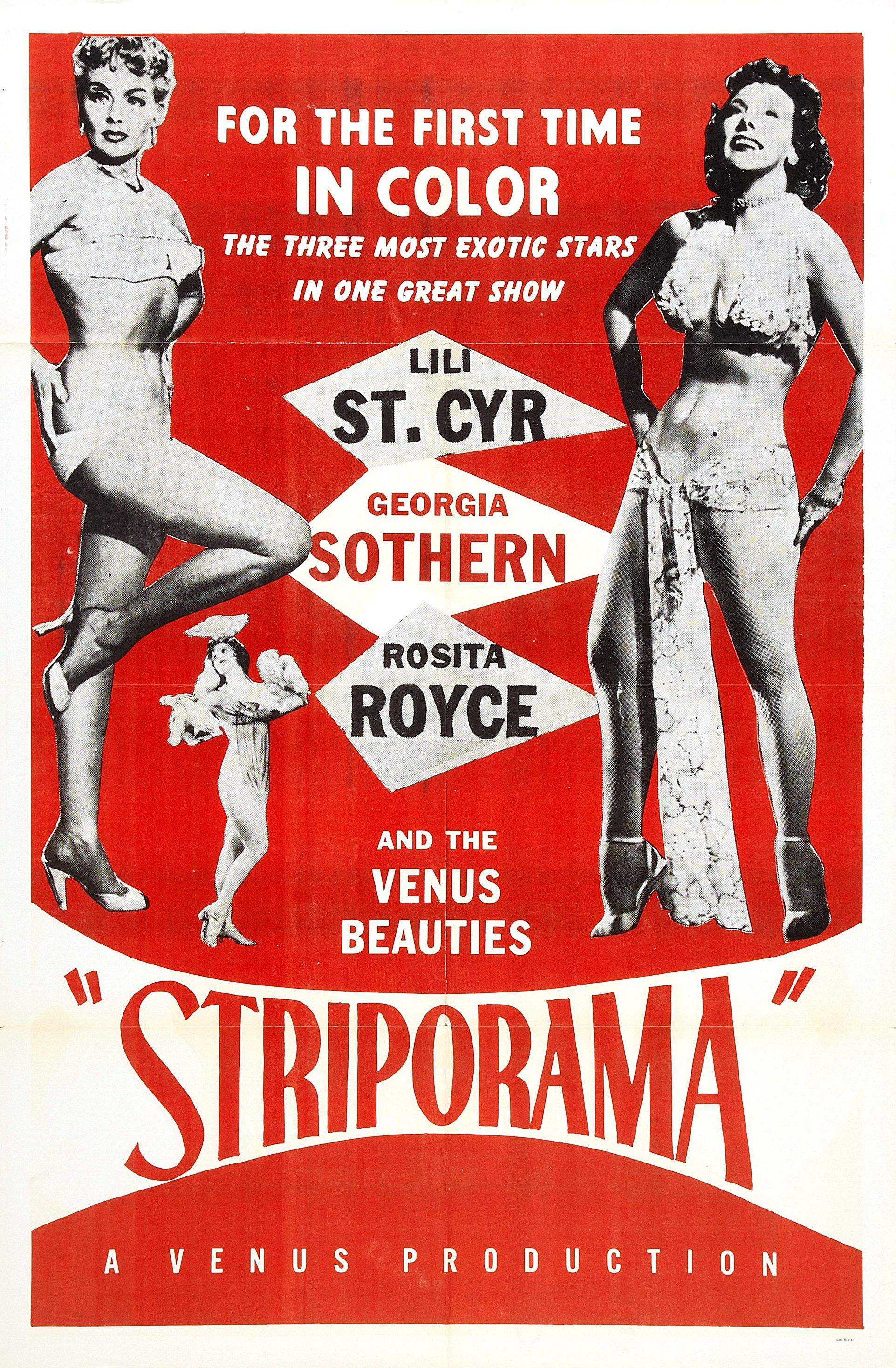 Film poster for the 1953 American sexploitation film Striporama